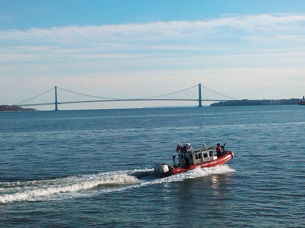 Verrazano-Narrows Bridge